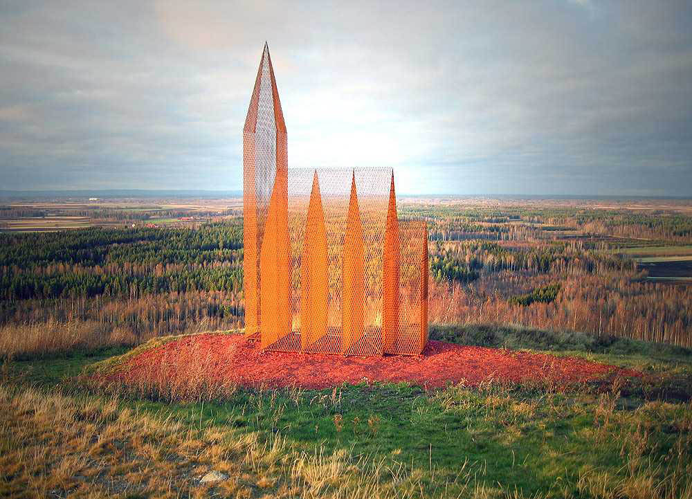 "Absit Omen" artwork by Swedish artist Kent Karlsson placed on the permanent exhibition "Konst på hög" in Kumla, Sweden